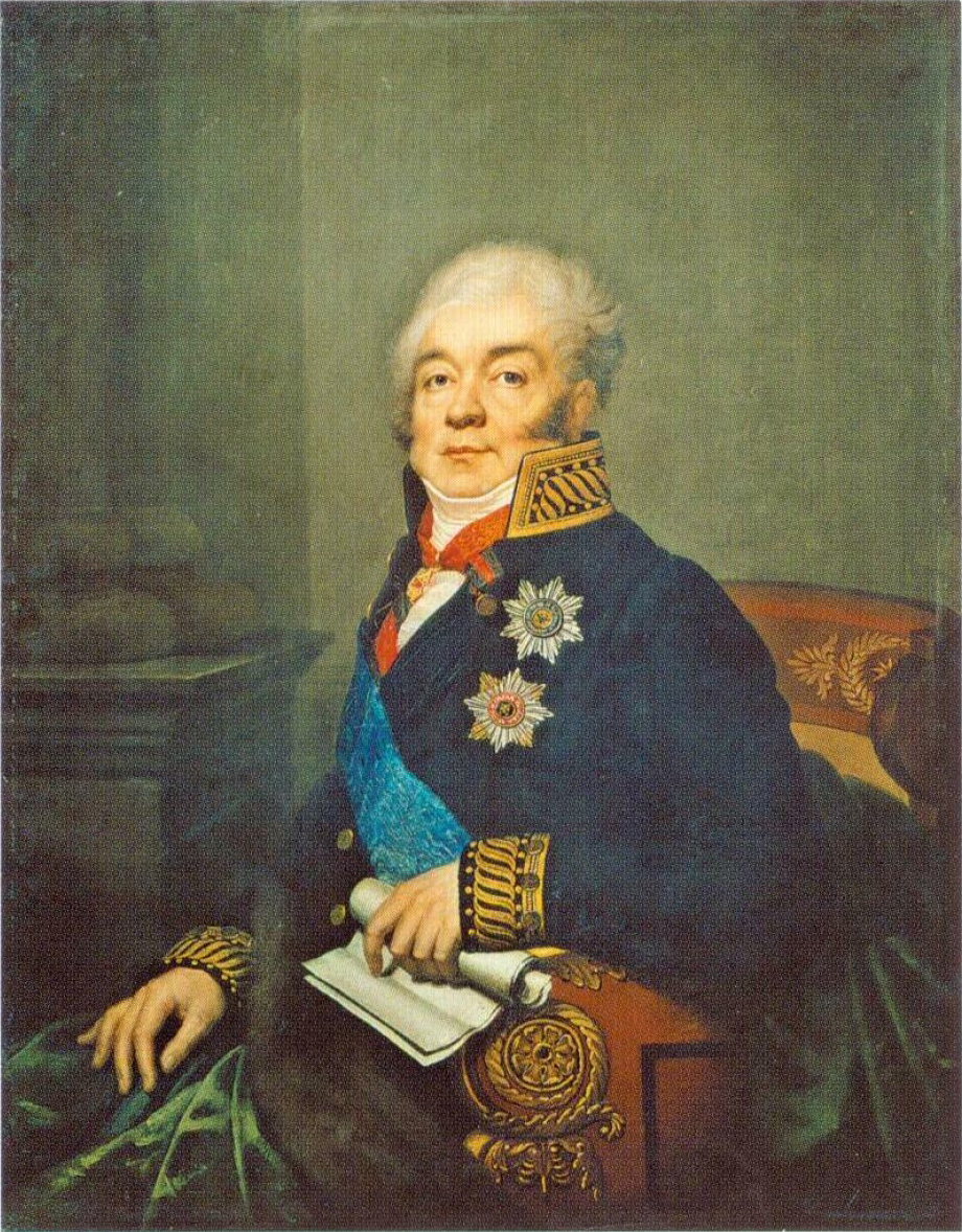 Gurjev Dmitry (1758-1825). Ministr of Russia (1806-1825)